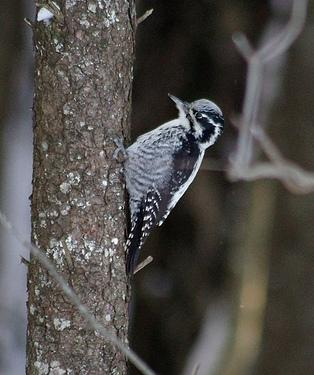 Picoides tridactylus